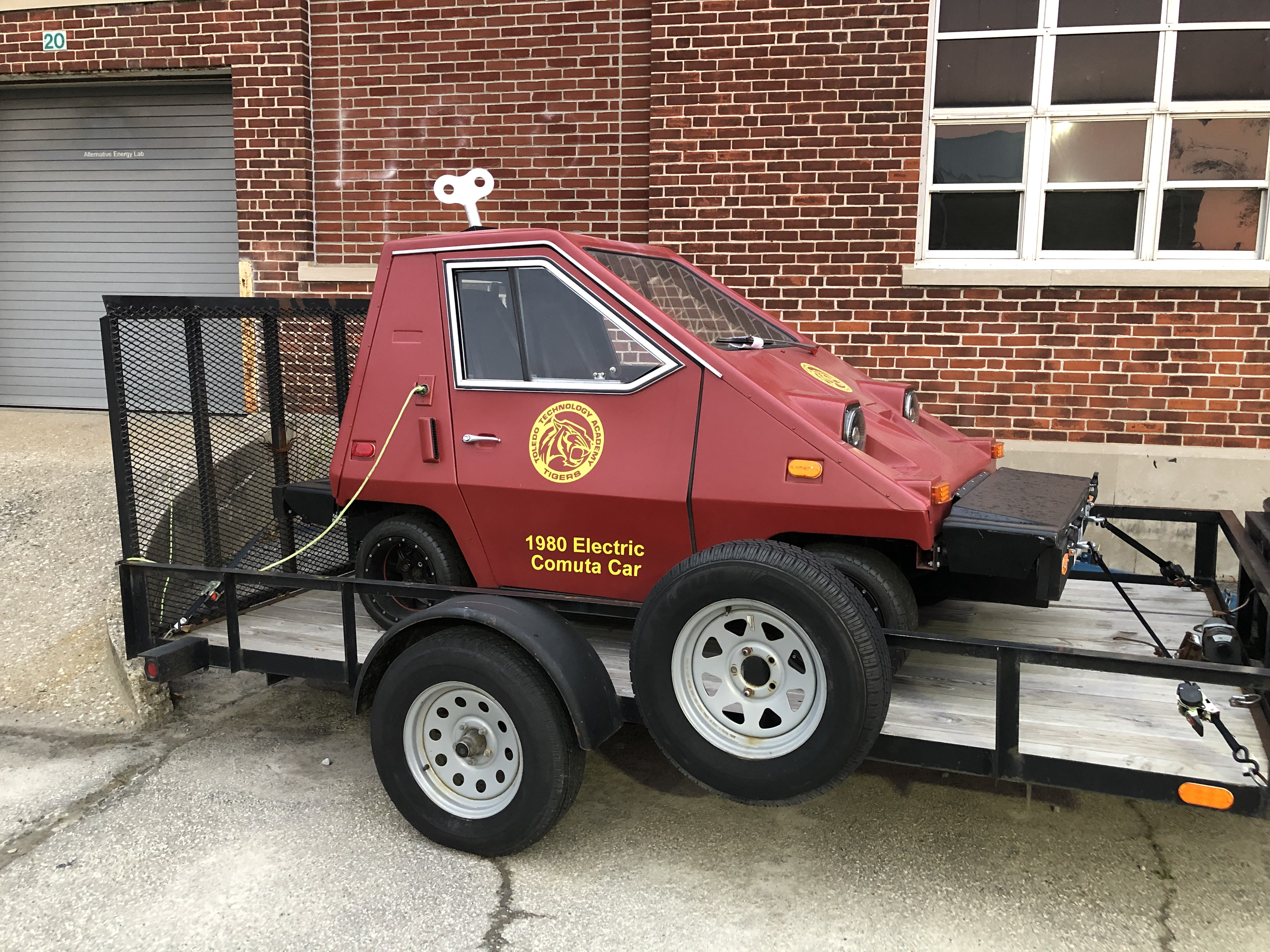 An electric car at the Toledo Technology Academy